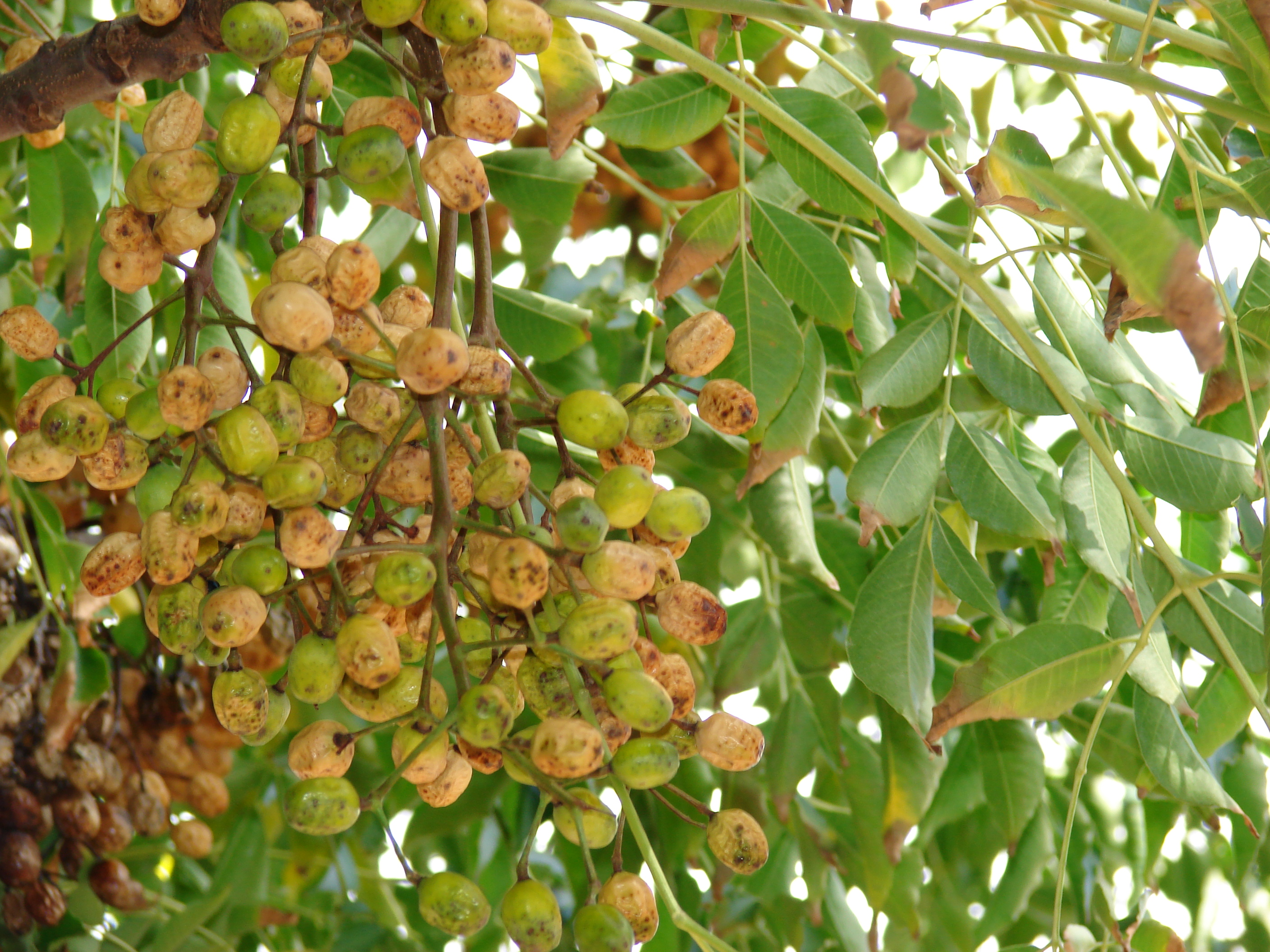 Melia azedarach (leaves and fruit). Location: Maui, Pukalani